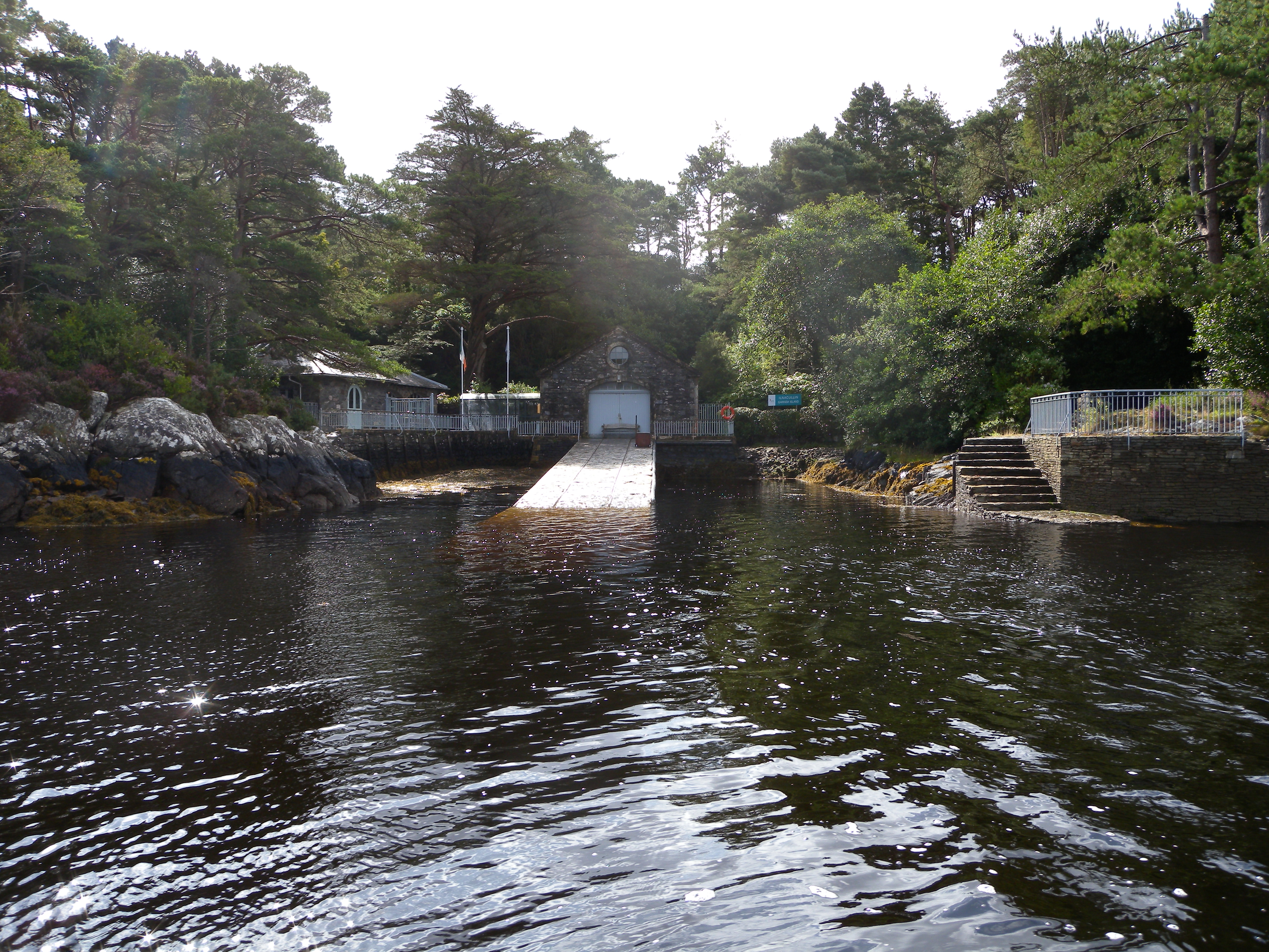 shipping pier at Garinish Island